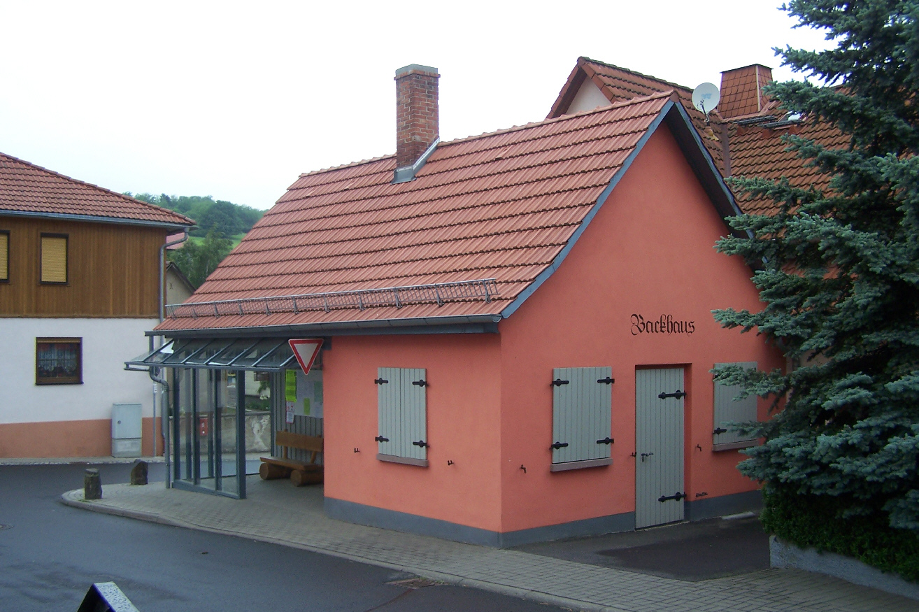 The old bakery in Klings.